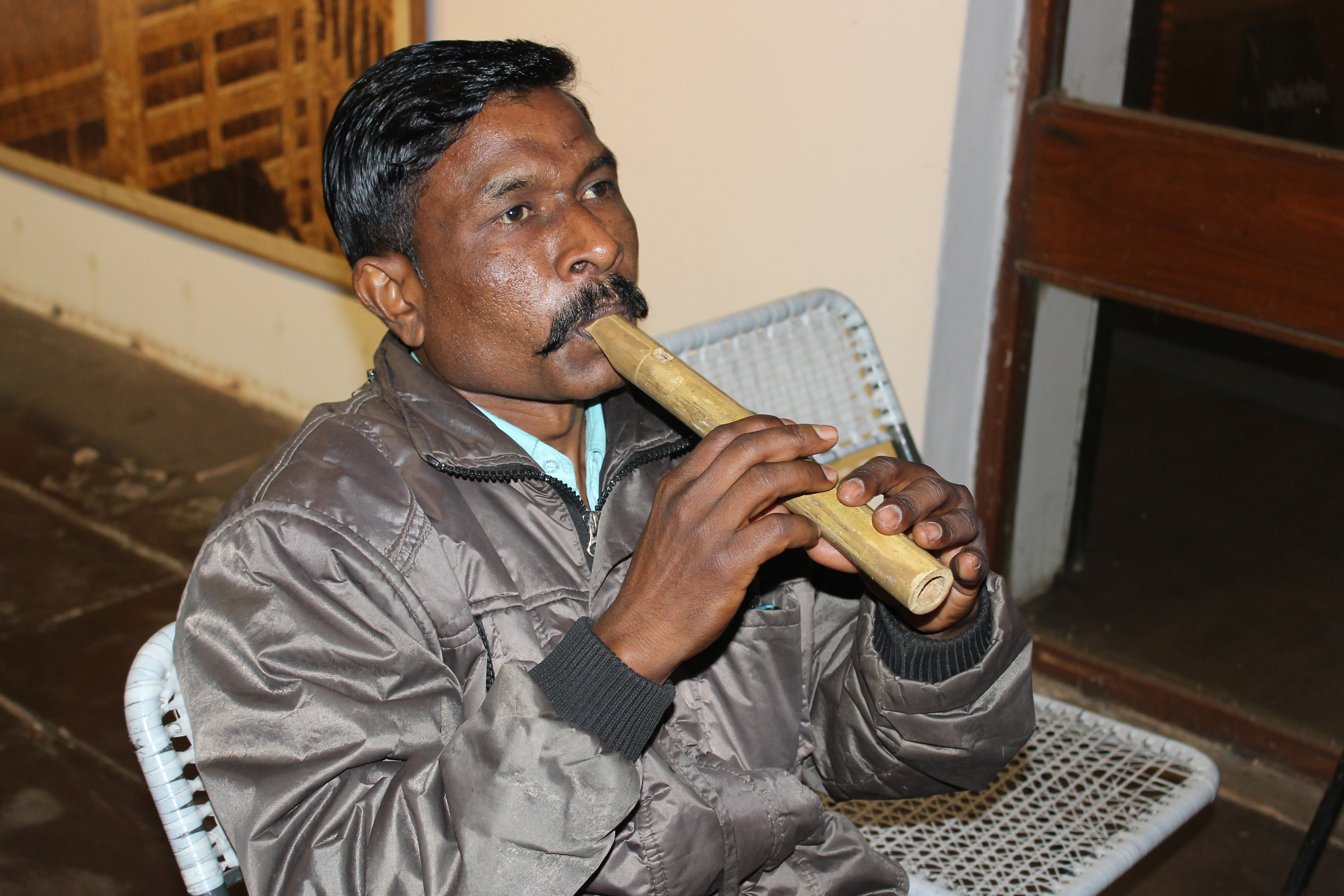 Flute Playing Rathava Community Man Gujrat